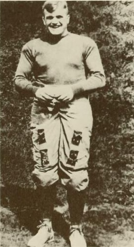 Photograph of Ira Errett "Rajah" Rodgers, West Virginia University football player